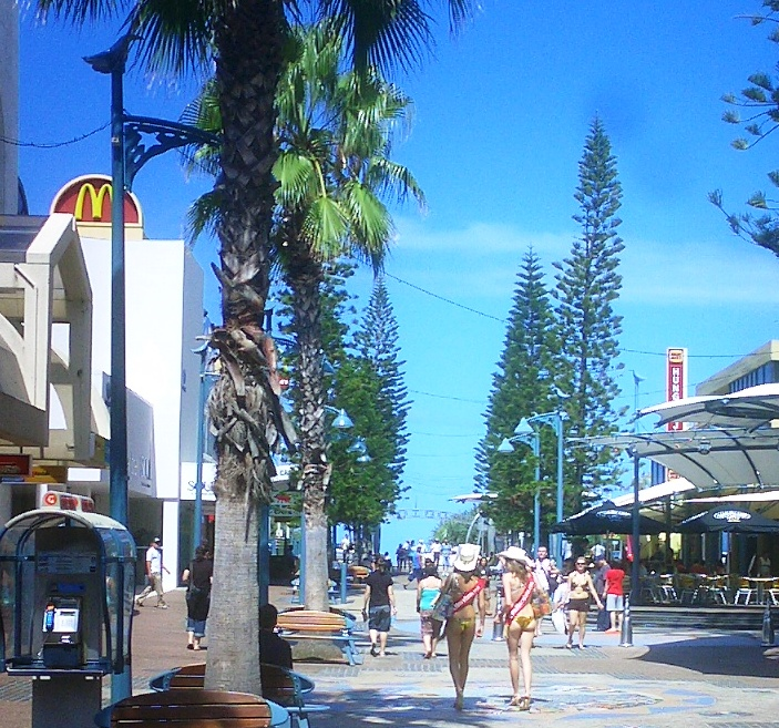 cropped and corrected from File:Meter maids-in-surfers paradise-Raffi Kojian-CIMG6337.JPG by user:RaffiKojian.